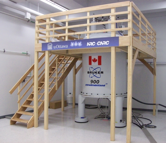 Solid-state 900 MHz (21.1 tesla) NMR spectrometer at the Canadian National Ultrahigh-field NMR Facility for Solids, Ottawa, Ontario